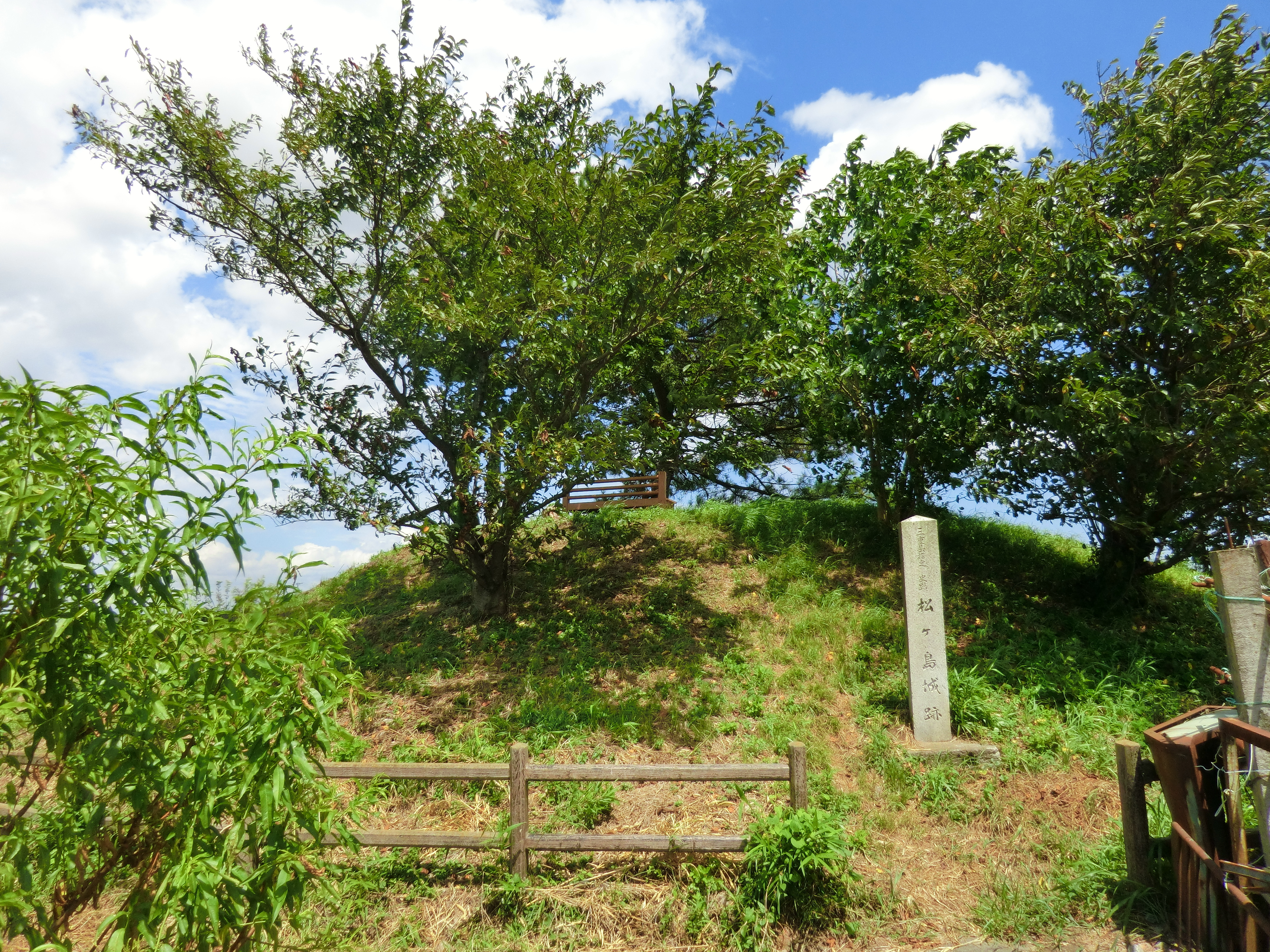 Ruins of Matsugashima Castle